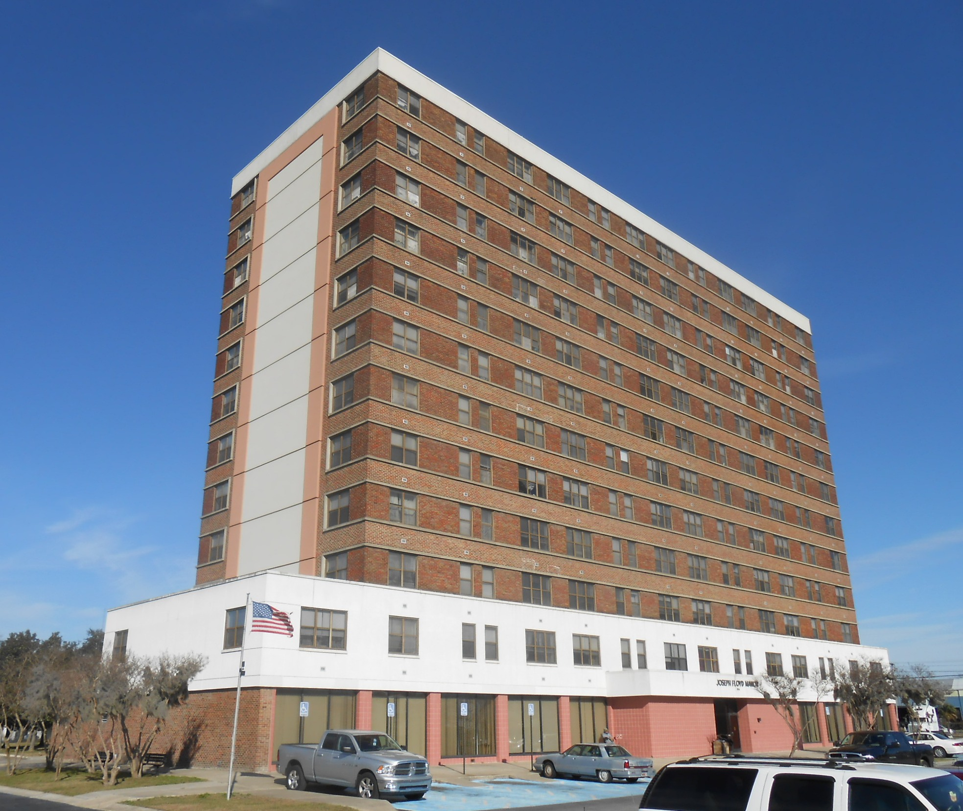 Joseph Floyd Manor, 2106 Mount Pleasant Street, Charleston, South Carolina